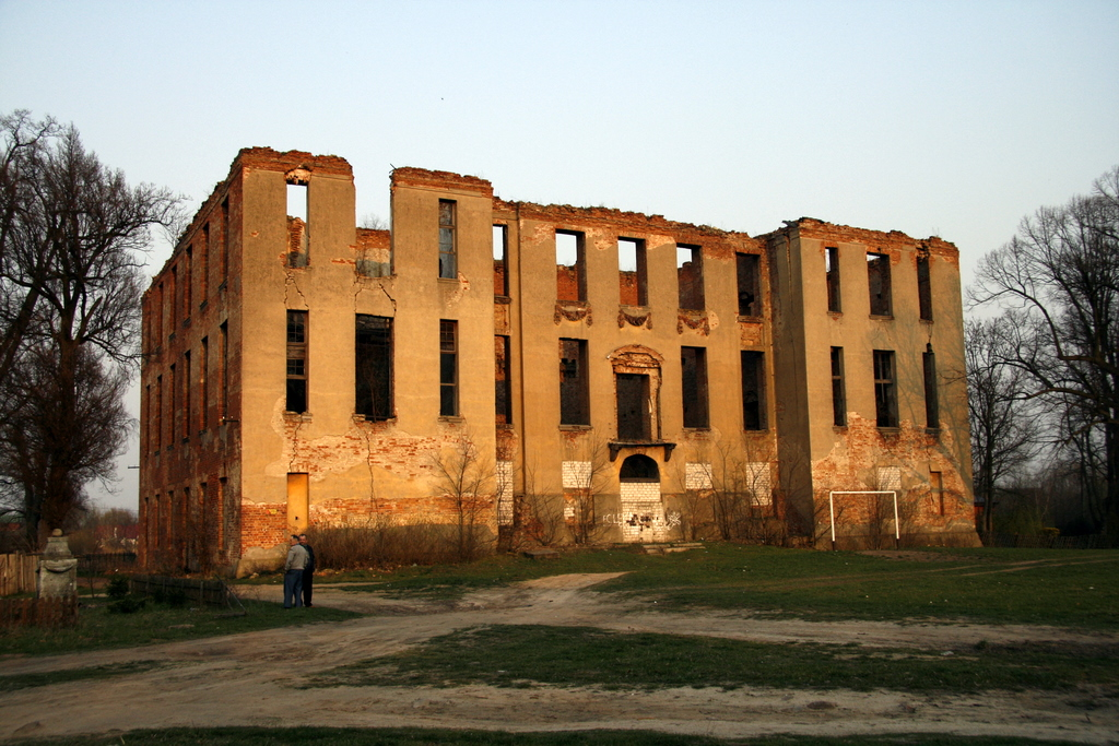 Ruins of the Sonnenburg castle of the Johanniterorder, Słońsk, Poland